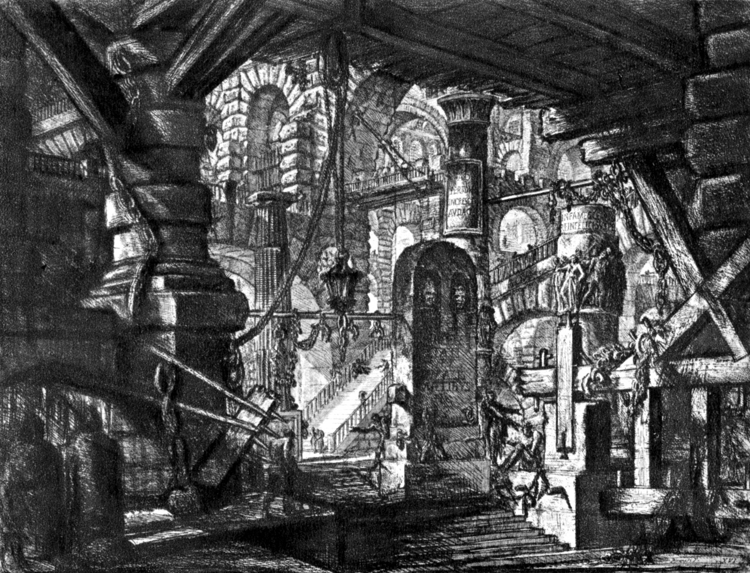 Giovanni Battista Piranesi: Untitled etching (called "The Pier with Chains"), plate XVI (of 16) from the series The Imaginary Prisons (Le Carceri d'Invenzione), Rome, 1761 edition (reworked from 1745).